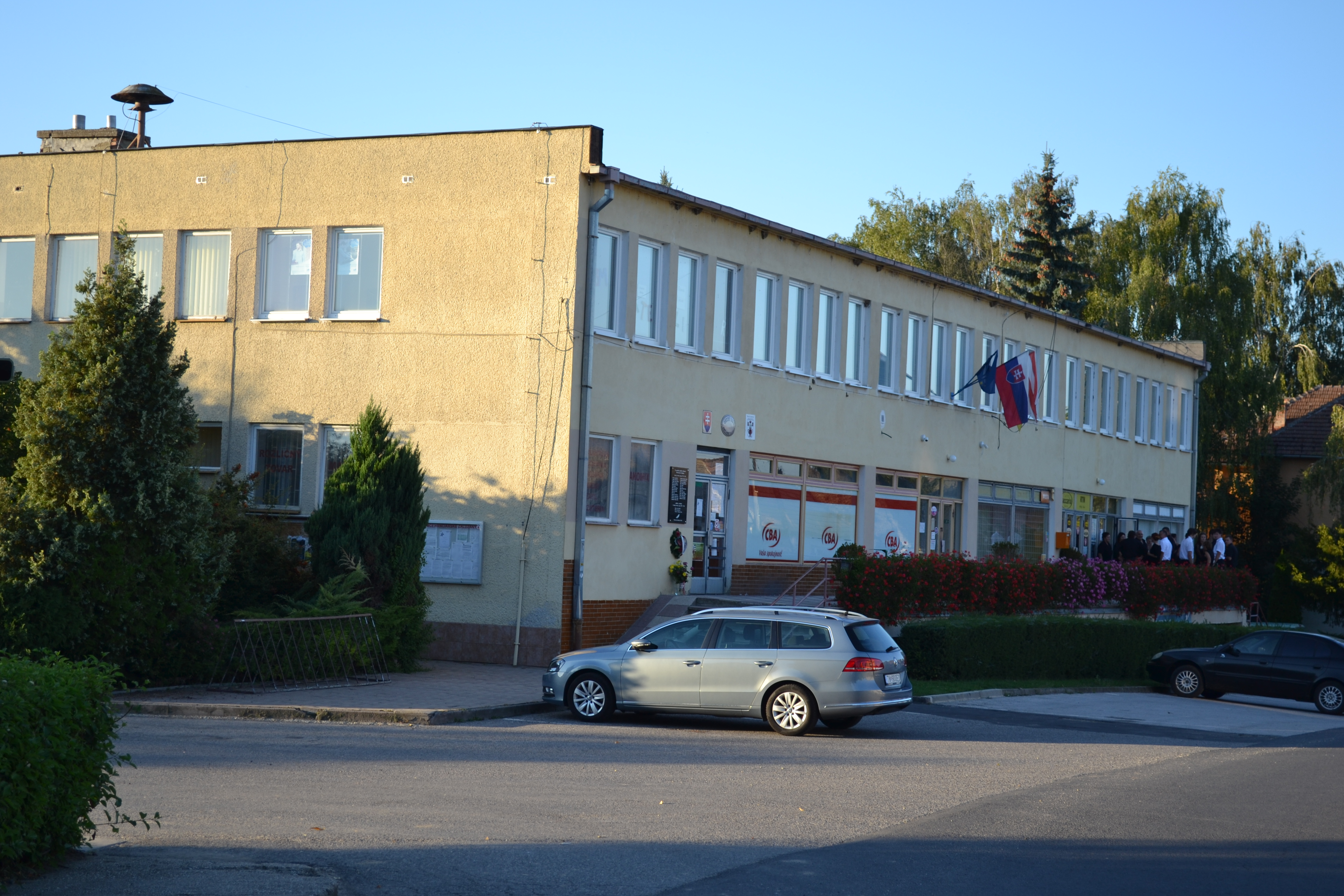 Municipal Office in the village Hrnčiarske Zalužany